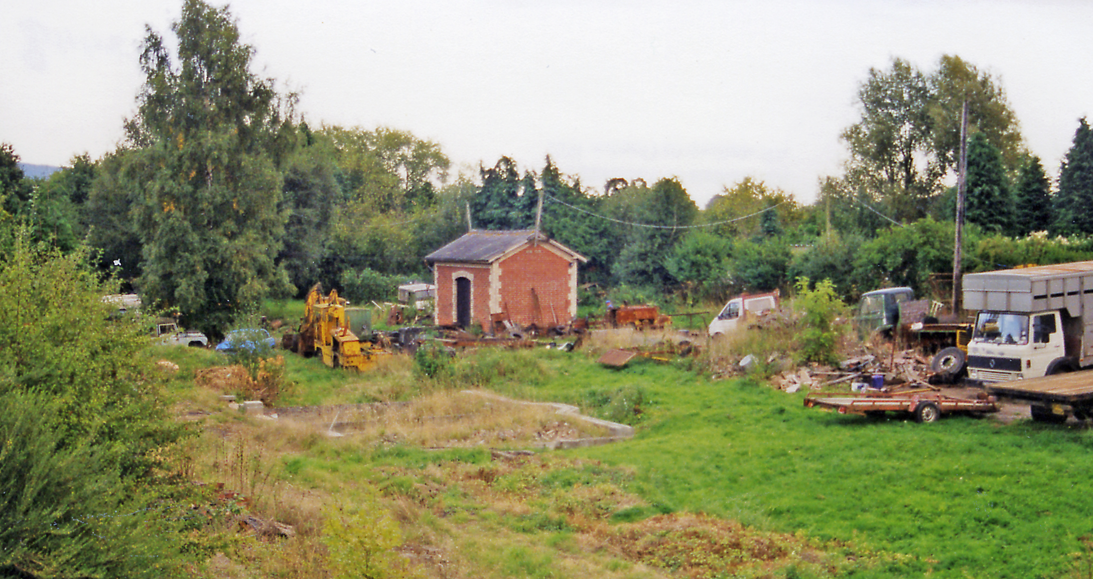 Kinnersley station site/remnants, 1999. View eastward, towards Hereford: ex-Midland Hereford - Hay - Brecon line. The station was closed to passengers along with much of the line - a western outlier of the Midland system, from 31/12/62, although freight continued Hereford - Eardisley until 28/9/64.